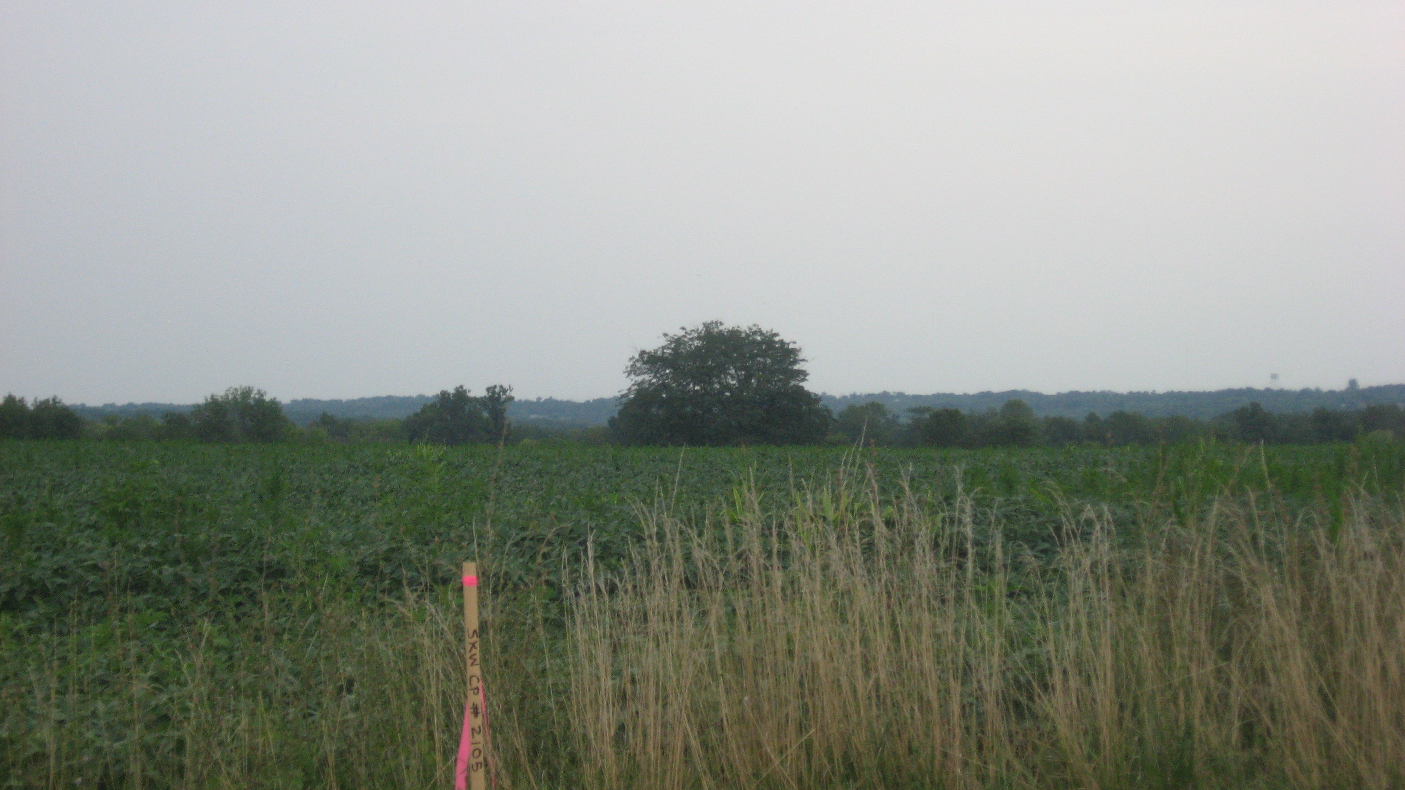 Fields on the northern side of State Route 129 west of Millville in Reily Township, Butler County, Ohio, United States. The clump of trees in the distance sits atop an Indian mound known as the Roberts Mound; an archaeological site, it is listed on the National Register of Historic Places.